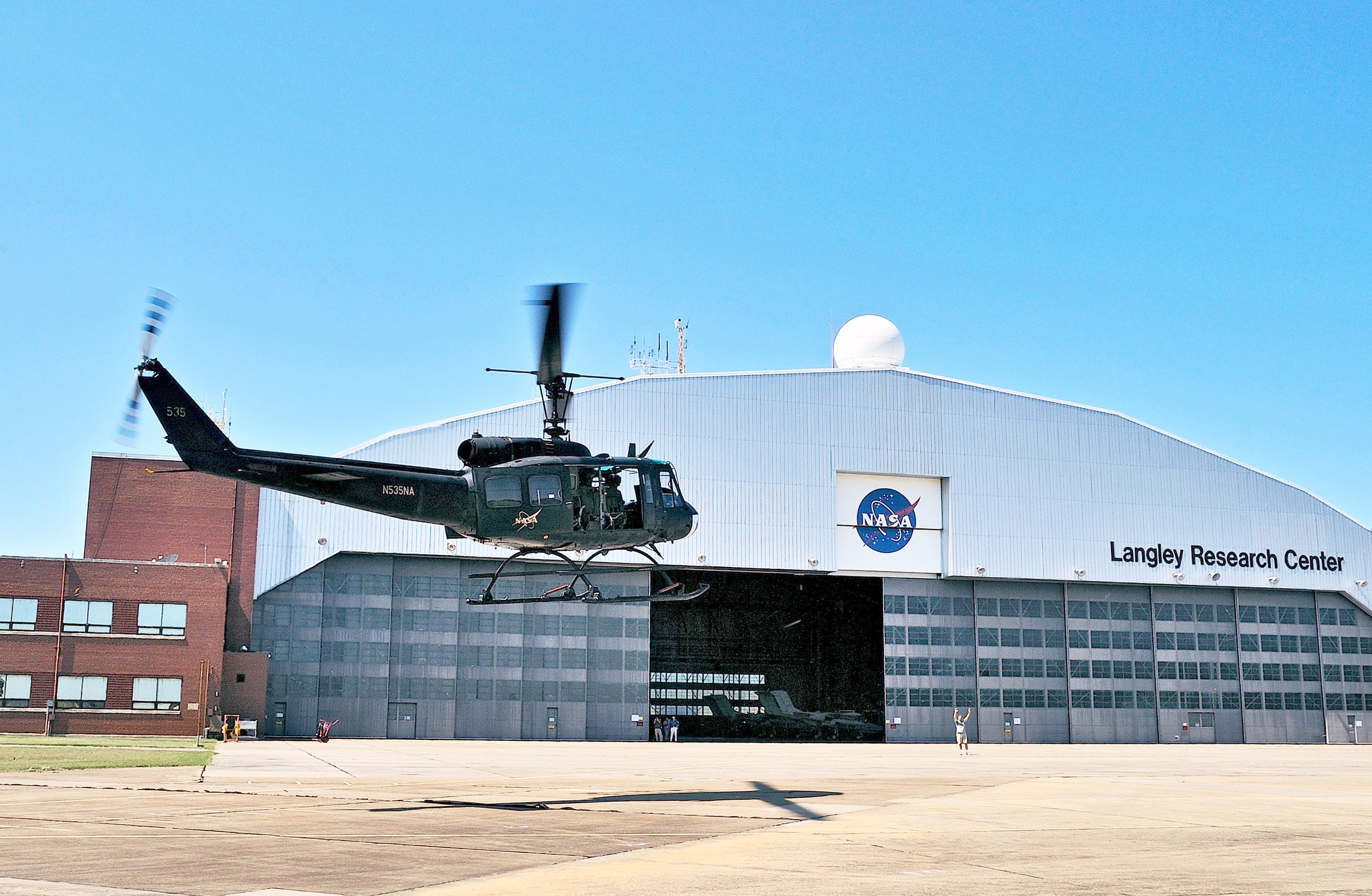 NASA Langley's Bell UH-1H Huey helicopter returns to the Center after a five-year long stint supporting space shuttle operations at Kennedy Space Center.